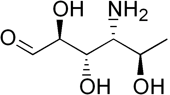 chemical structure of perosamine created with ChemDraw